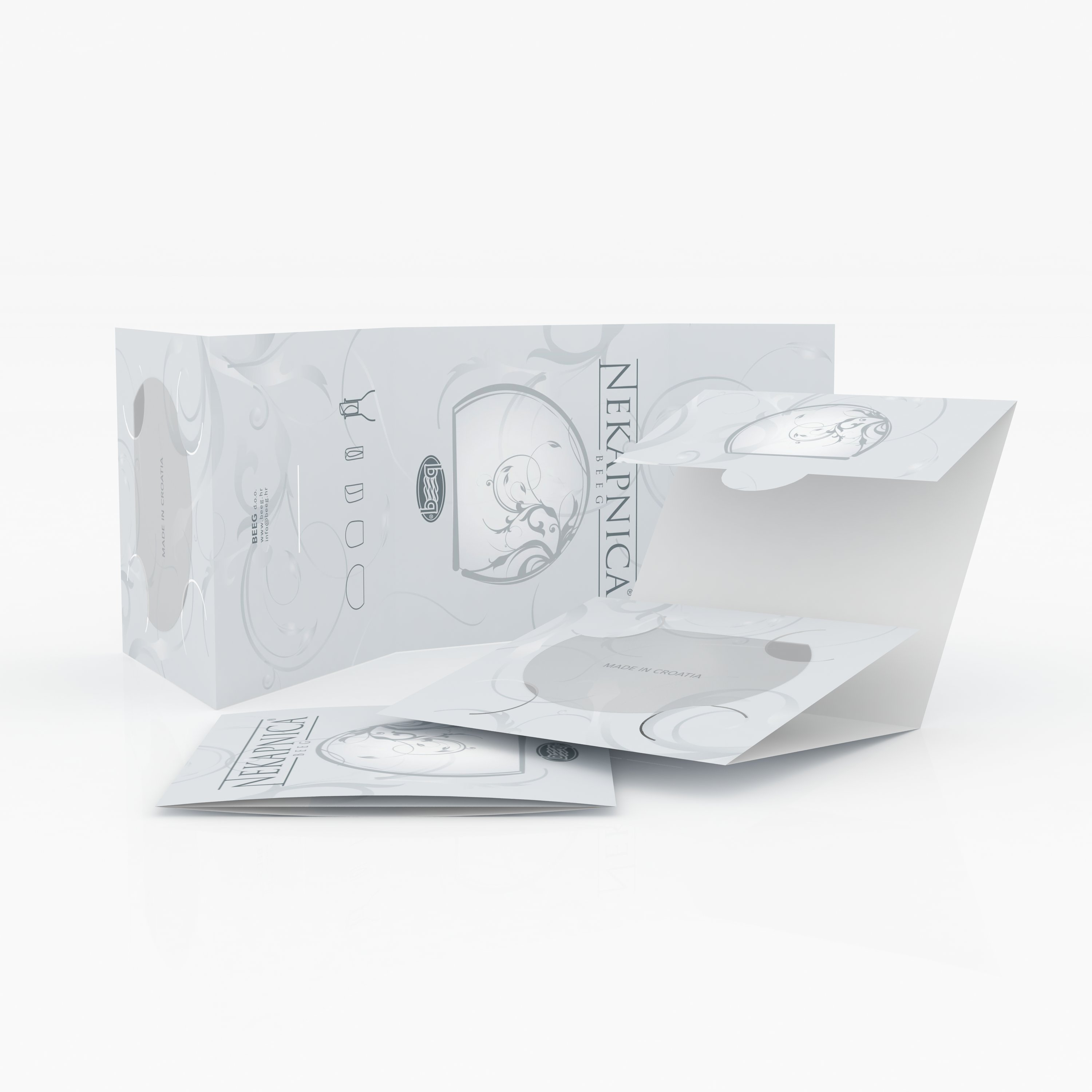 Nekapnica ® - Packaging